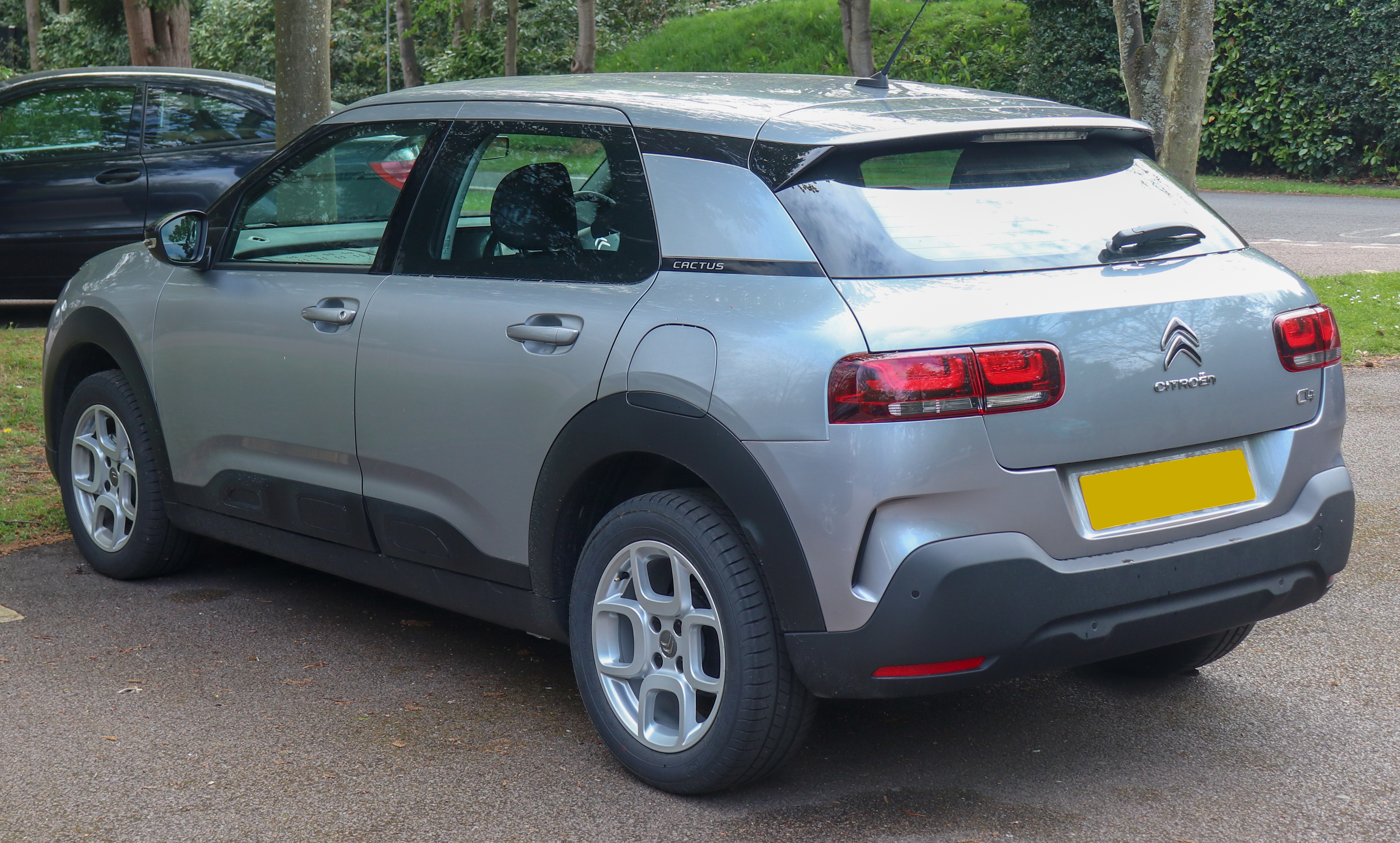 2019 Citroen C4 Cactus Feel Puretech S 1.2 Rear Taken in Warwick